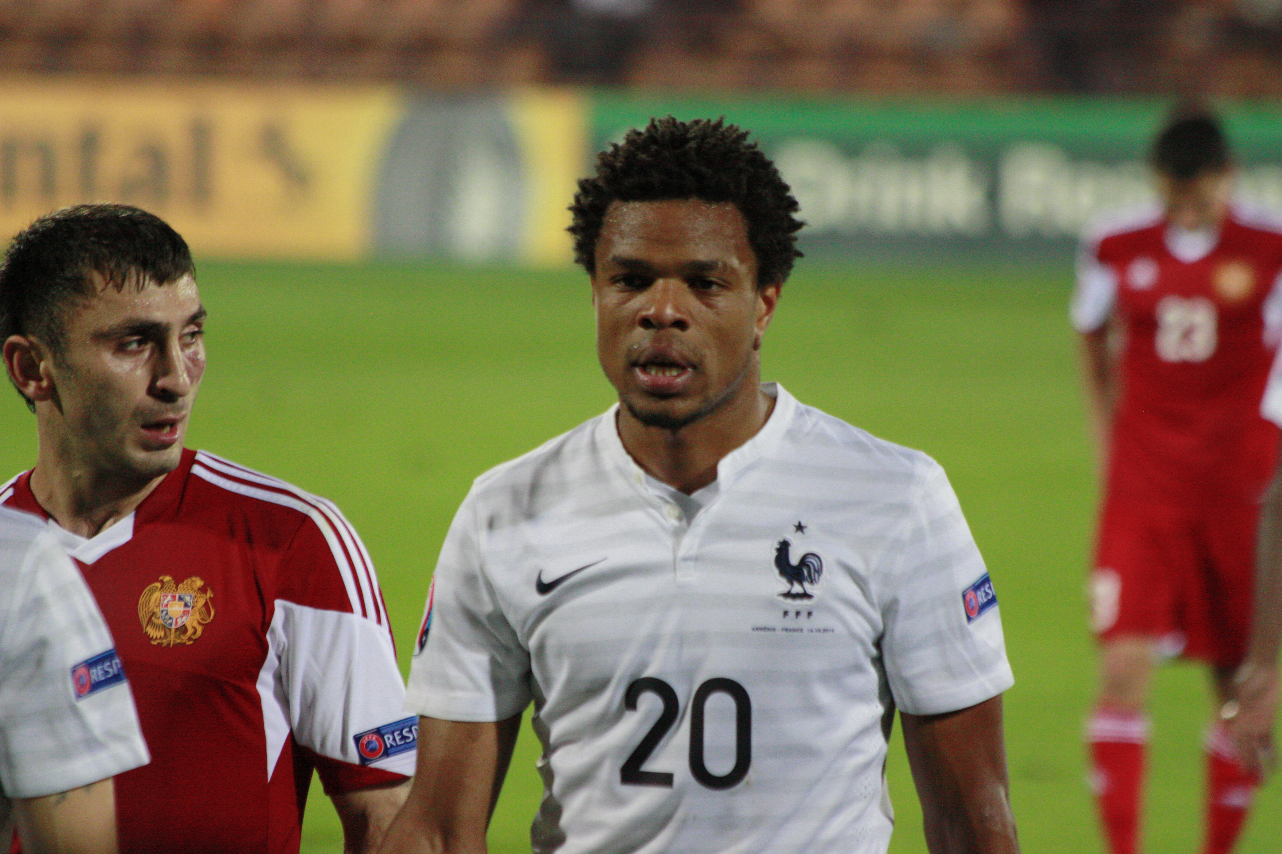 Loic Remy playing for France national football team.